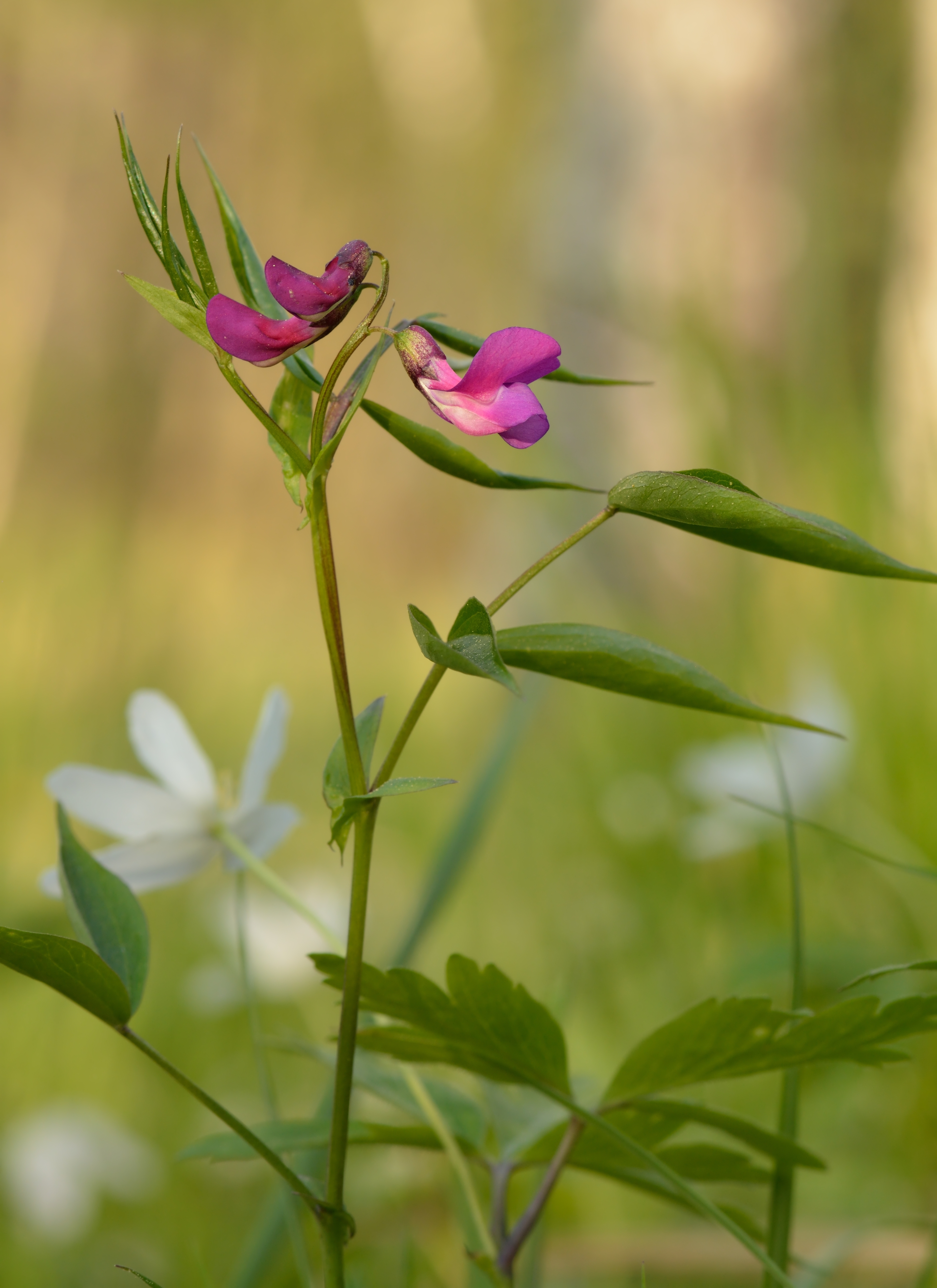 Lathyrus vernus - spring pea, wooden meadow in Keila.